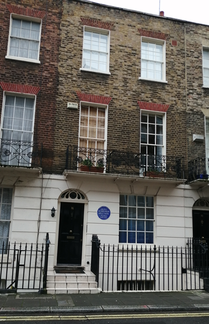 16 Portsea Place, London W2, with a blue plaque commemorating Olive Schreiner, who lived here in the 1880s.